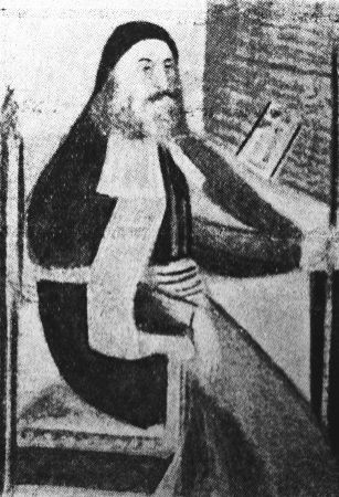 Gabriel Severos (1541-1616): Greek scholar